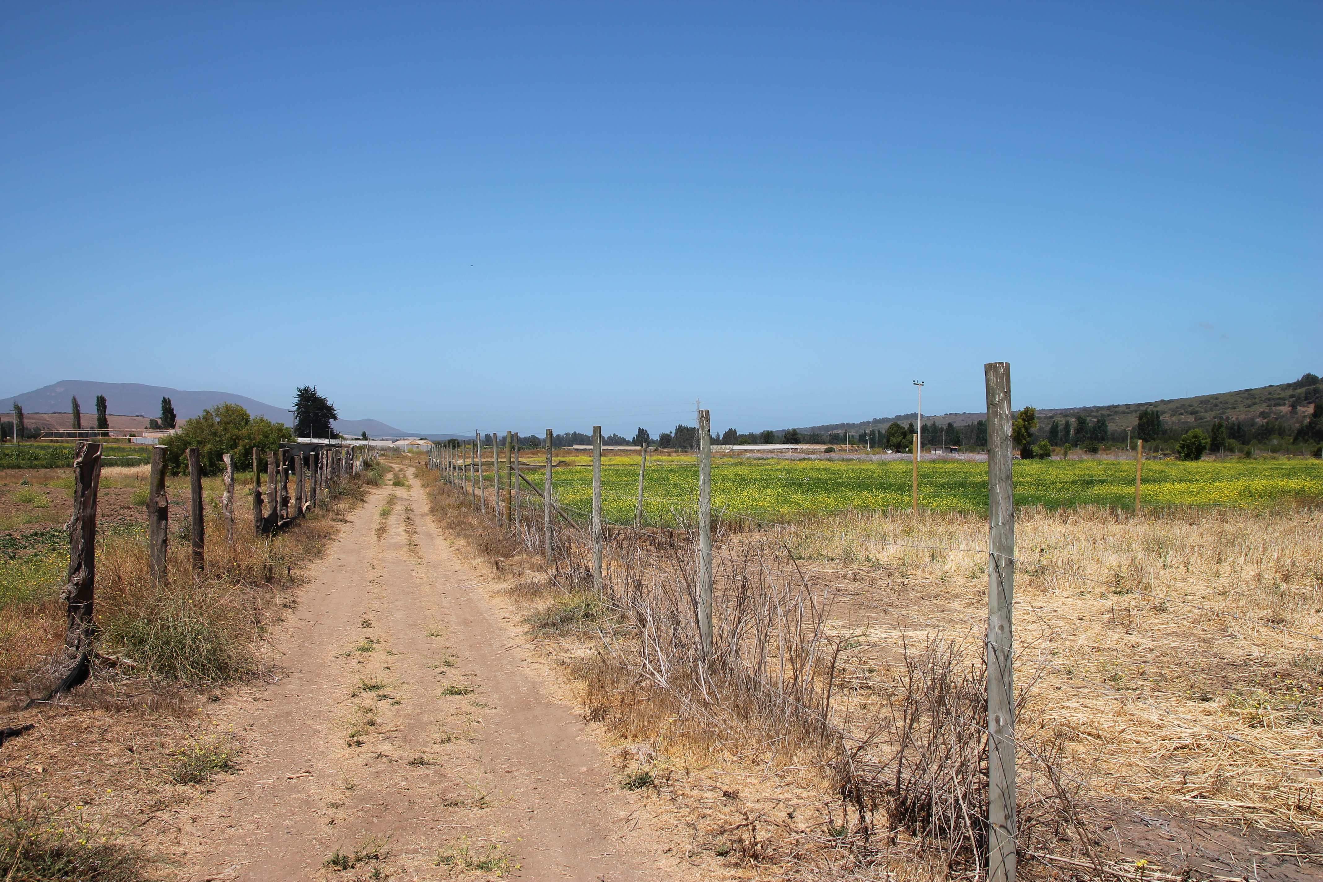 Longotoma, La Ligua